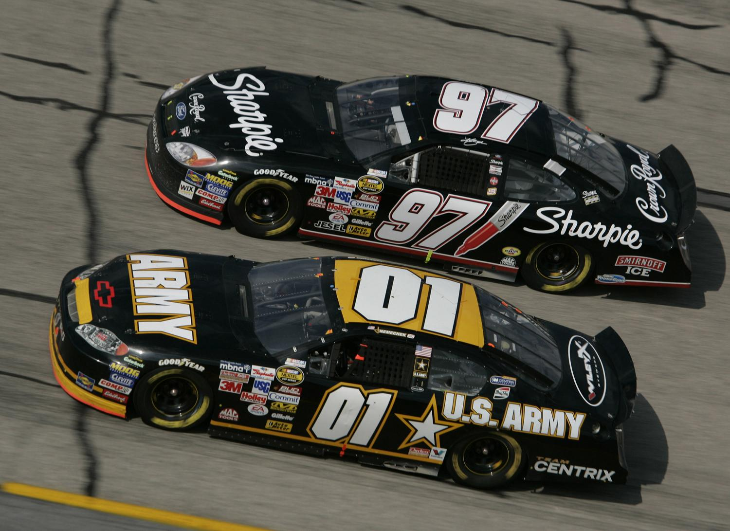 Vehicles of NASCAR drivers Kurt Busch and Joe Nemechek at Talladega Superspeedway in Talladega, Alabama